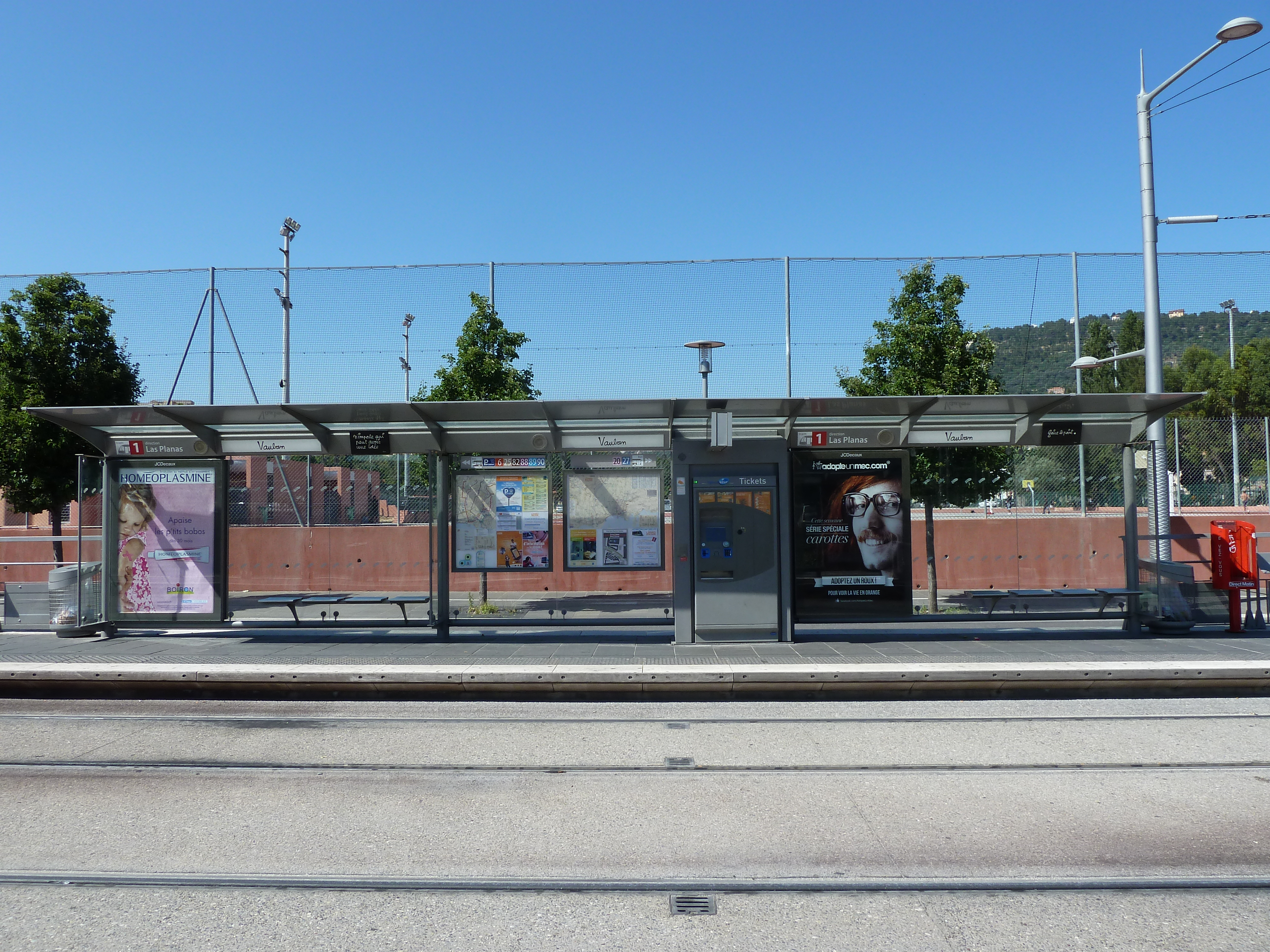 Station of Nice tram line 1